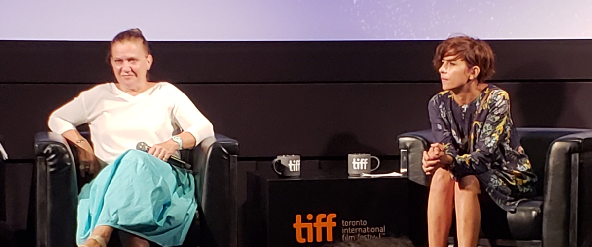 Ada Solomon and Ioana Iacob at a Q&A for I Do Not Care If We Go Down in History as Barbarians at TIFF Bell Lightbox in Toronto, Ontario, Canada